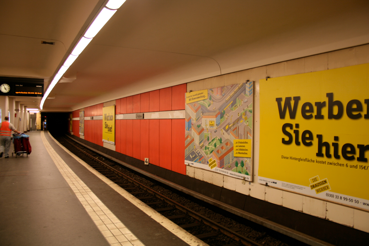 U-Bahn Station Rudow